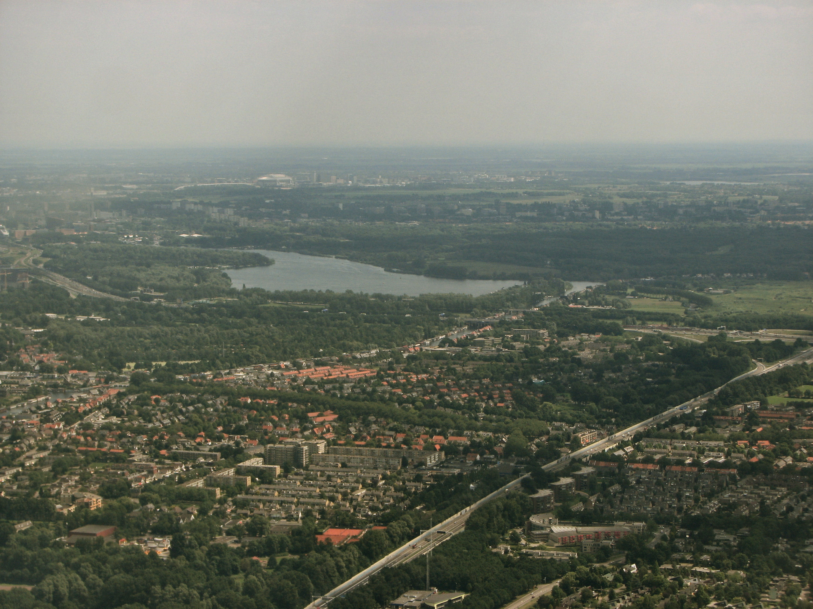 Aerial view of Badhoevedorp, The Netherlands, taken from the northwest